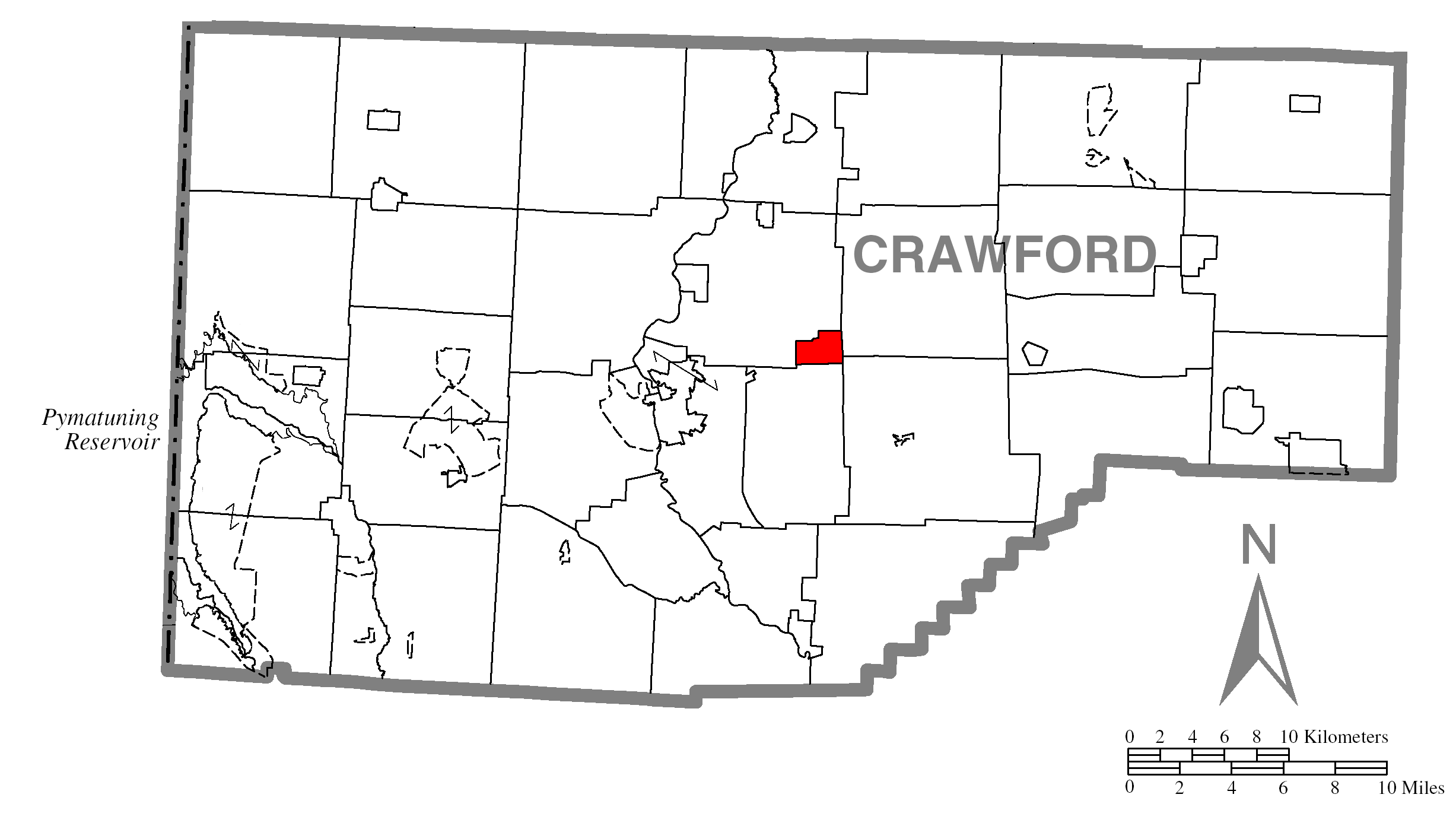 Map of Crawford County higlighting Blooming Valley.